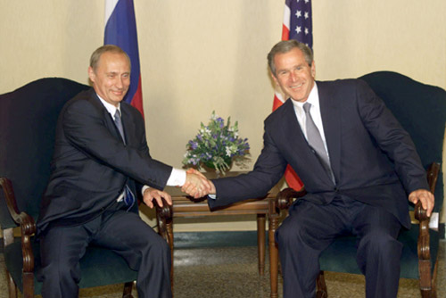 DORIA SPINOLA PALACE, GENOA. President Putin speaking with US President George W. Bush.